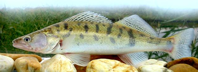 Sander lucioperca photographed in Hortobagy, Hungary.